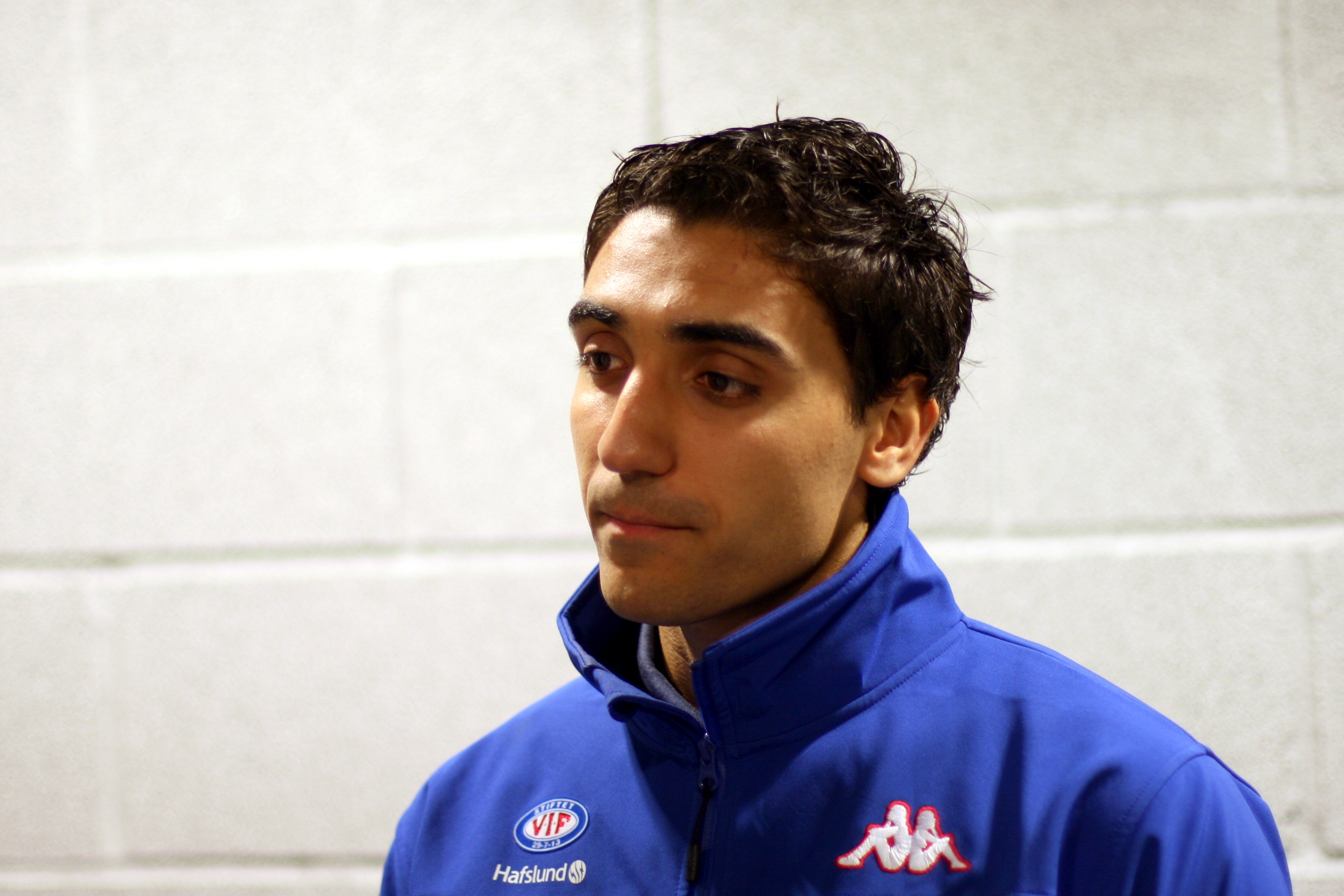 Norwegian footballer Mohammed Abdellaoue.